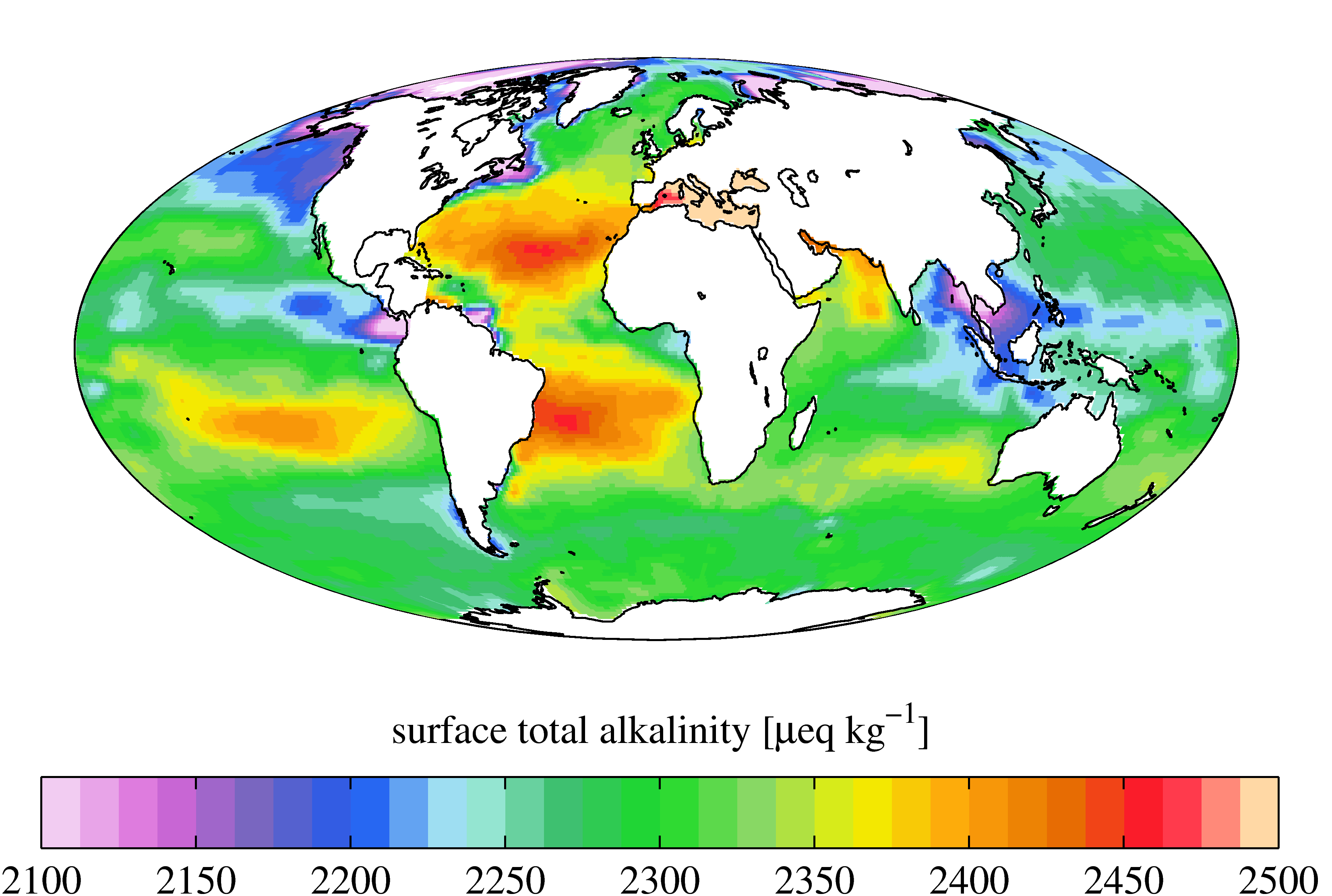 Annual mean sea surface total alkalinity for the present day (normalised to year 2002) from the Global Ocean Data Analysis Project v2 (GLODAPv2) climatology. Sources are given below. It is plotted here using a Mollweide projection (using MATLAB v2013a). Note that the GLODAPv2 climatology is missing data in certain oceanic provinces including the Arctic Ocean, the Caribbean Sea and certain inland seas. Lauvset, S. K., Key, R. M., Olsen, A., van Heuven, S., Velo, A., Lin, X., Schirnick, C., Kozyr, A., Tanhua, T., Hoppema, M., Jutterström, S., Steinfeldt, R., Jeansson, E., Ishii, M., Perez, F. F., Suzuki, T., and Watelet, S.: A new global interior ocean mapped climatology: the 1° × 1° GLODAP version 2, Earth Syst. Sci. Data, 8, 325-340, 2016 Key, R.M., A. Olsen, S. van Heuven, S. K. Lauvset, A. Velo, X. Lin, C. Schirnick, A. Kozyr, T. Tanhua, M. Hoppema, S. Jutterström, R. Steinfeldt, E. Jeansson, M. Ishi, F. F. Perez, and T. Suzuki. 2015. Global Ocean Data Analysis Project, Version 2 (GLODAPv2), ORNL/CDIAC-162, NDP-P093. Carbon Dioxide Information Analysis Center, Oak Ridge National Laboratory, US Department of Energy, Oak Ridge, Tennessee.